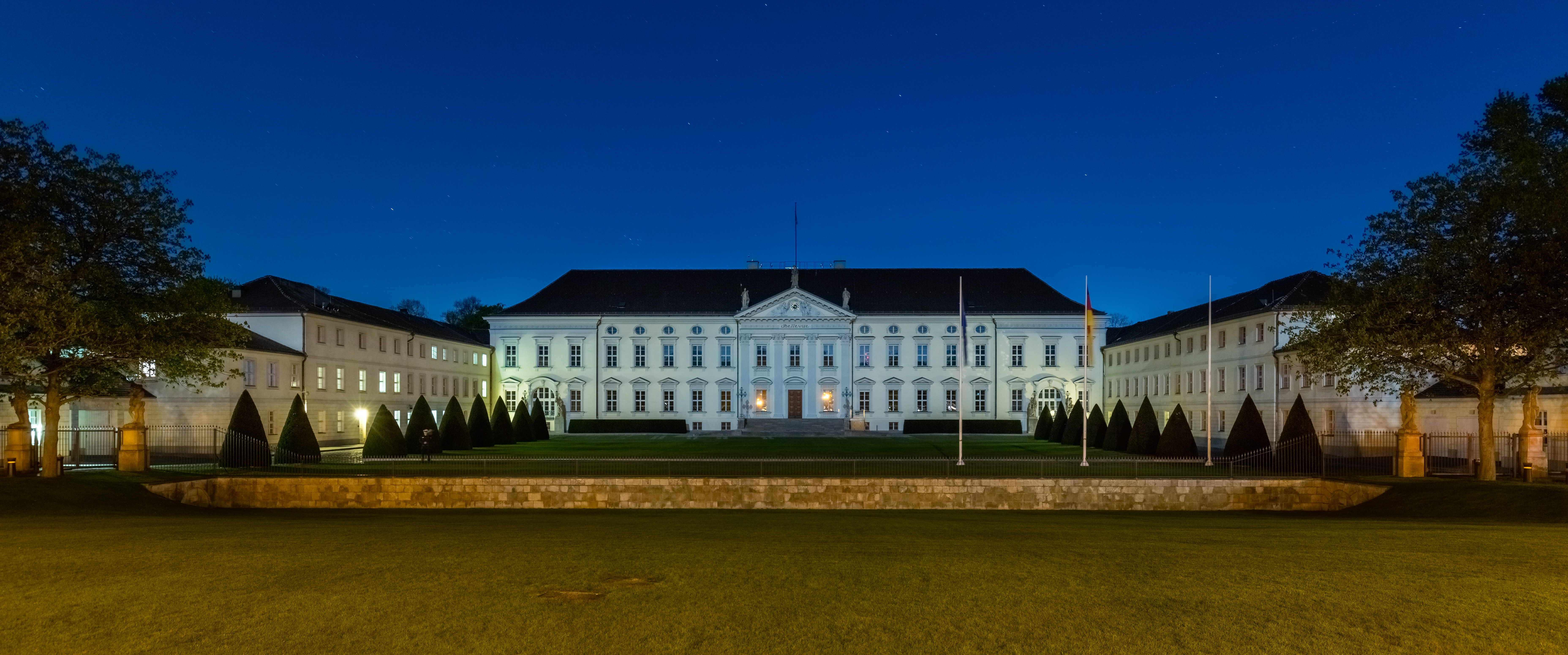 Bellevue Palace, Berlin, Germany